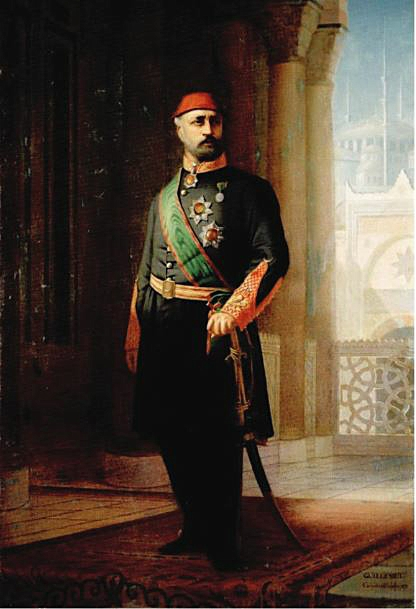 Sultan Abdülaziz